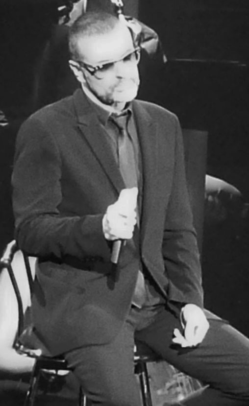 George Michael at the Palais Nikaia (Nice, France) in 2011, for Symphonica: The Orchestral Tour.